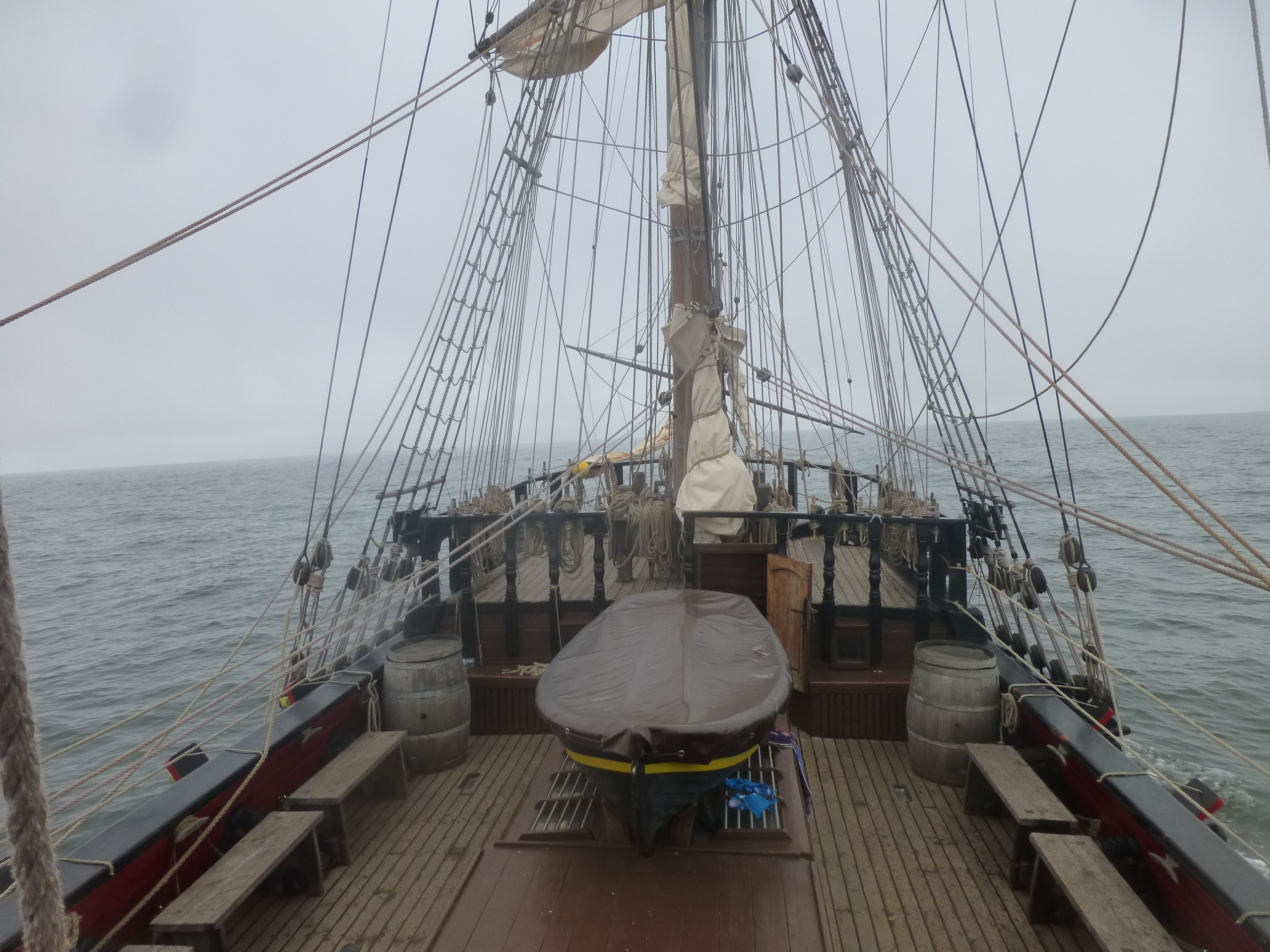 Fog in the Baltic Sea, Grace heading to a grain in 2017 the day before Klaipeda arrival.